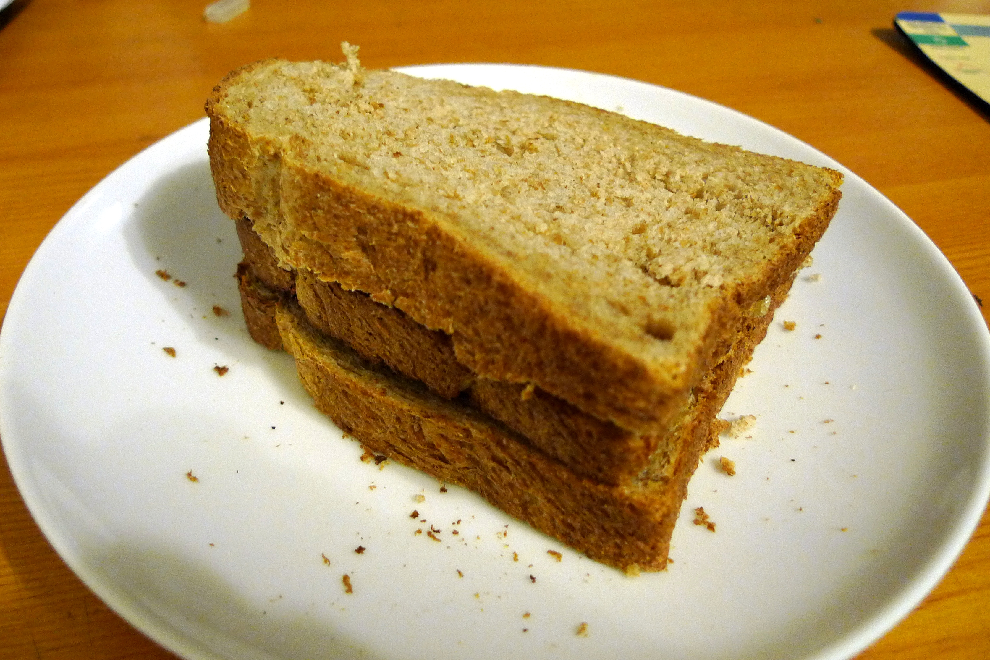 A homemade toast sandwich.